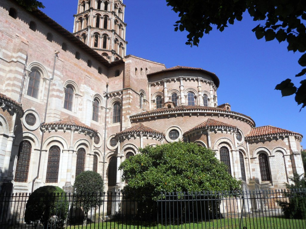 Toulouse, St Sernin, interior